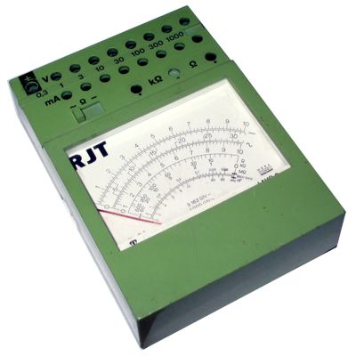 Analog multimeter Lavo 2.